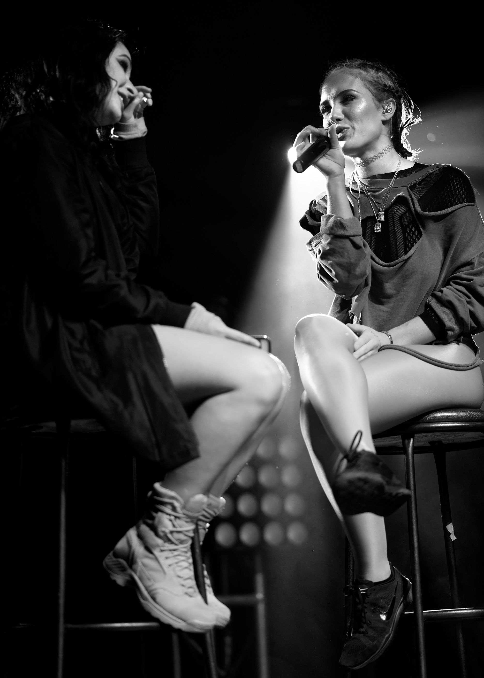 Niykee Heaton performing at the El Rey Theatre on December 18, 2015 as part of The Bedroom Tour.